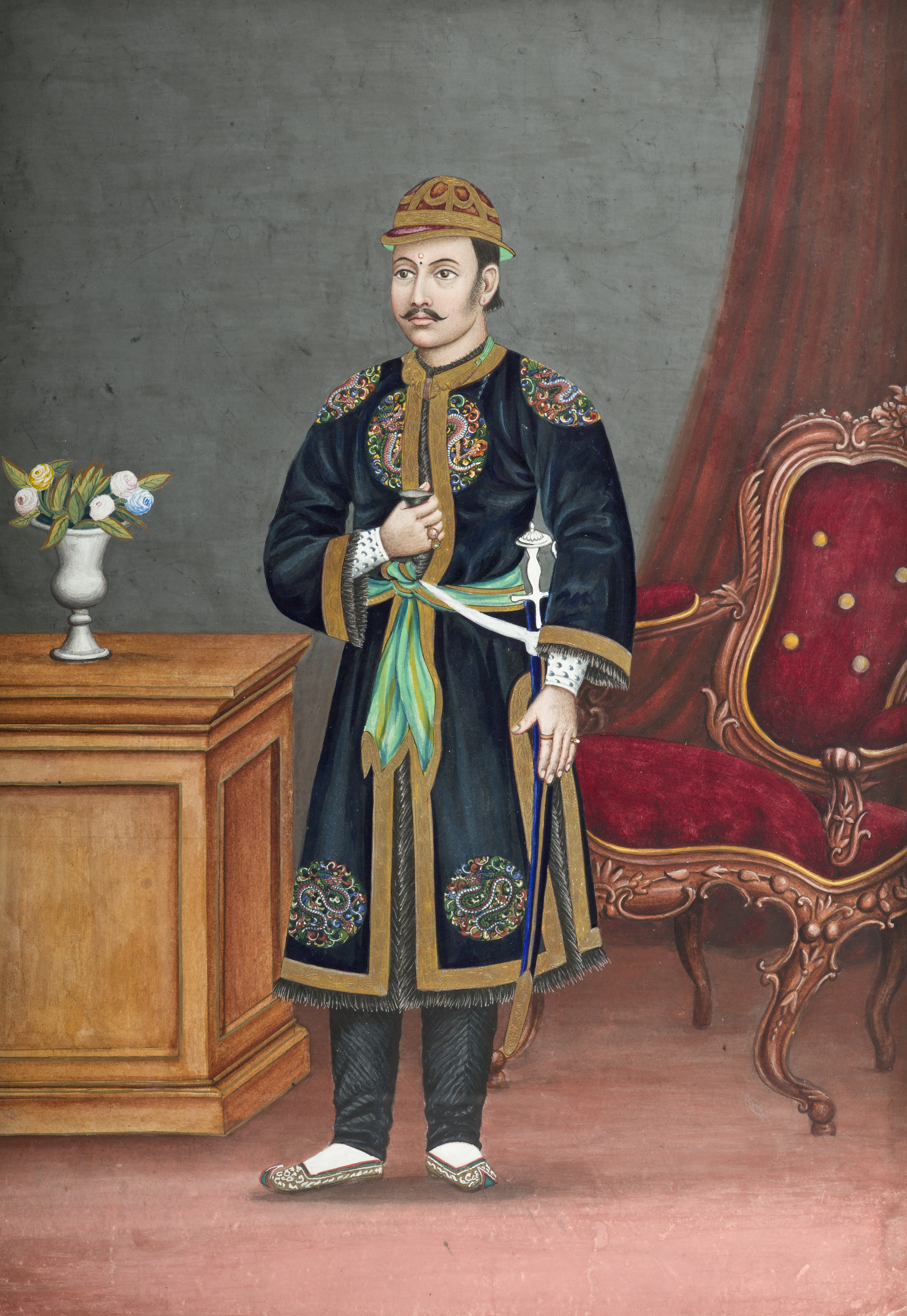 Nepal, circa 1860-1900 Drawings; watercolors Opaque watercolor and gold on paper 18 1/2 x 12 3/4 in. (47 x 32.4 cm) Purchased with funds provided by the Phil Berg Collection (M.91.206) South and Southeast Asian Art